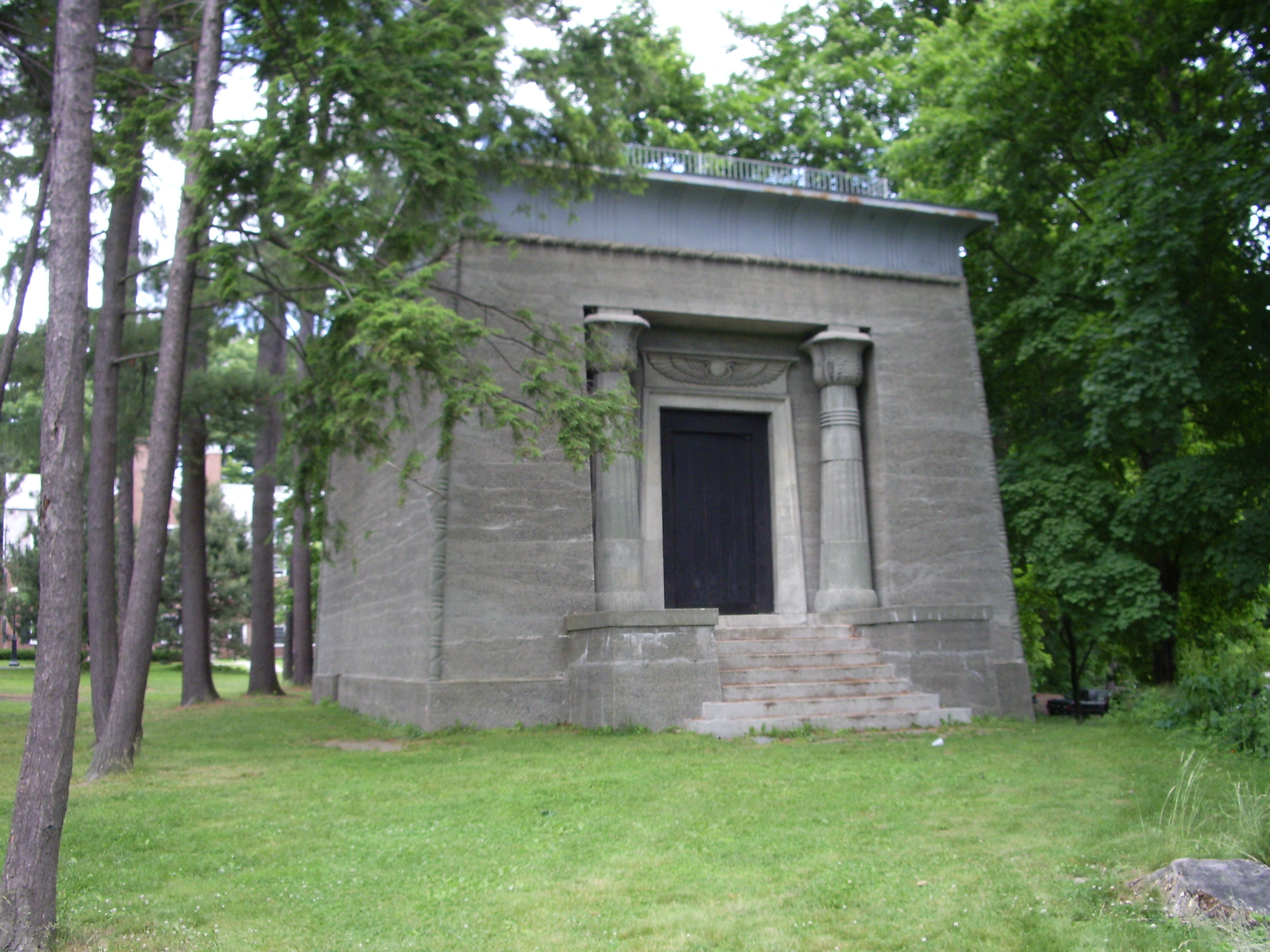 Photograph of the Sphinx at the campus of Dartmouth College in Hanover, New Hampshire.